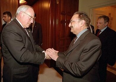 Turkish Prime Minister Bulent Ecevit welcomes U.S. Vice President Dick Cheney to a working dinner in Ankara, Turkey.